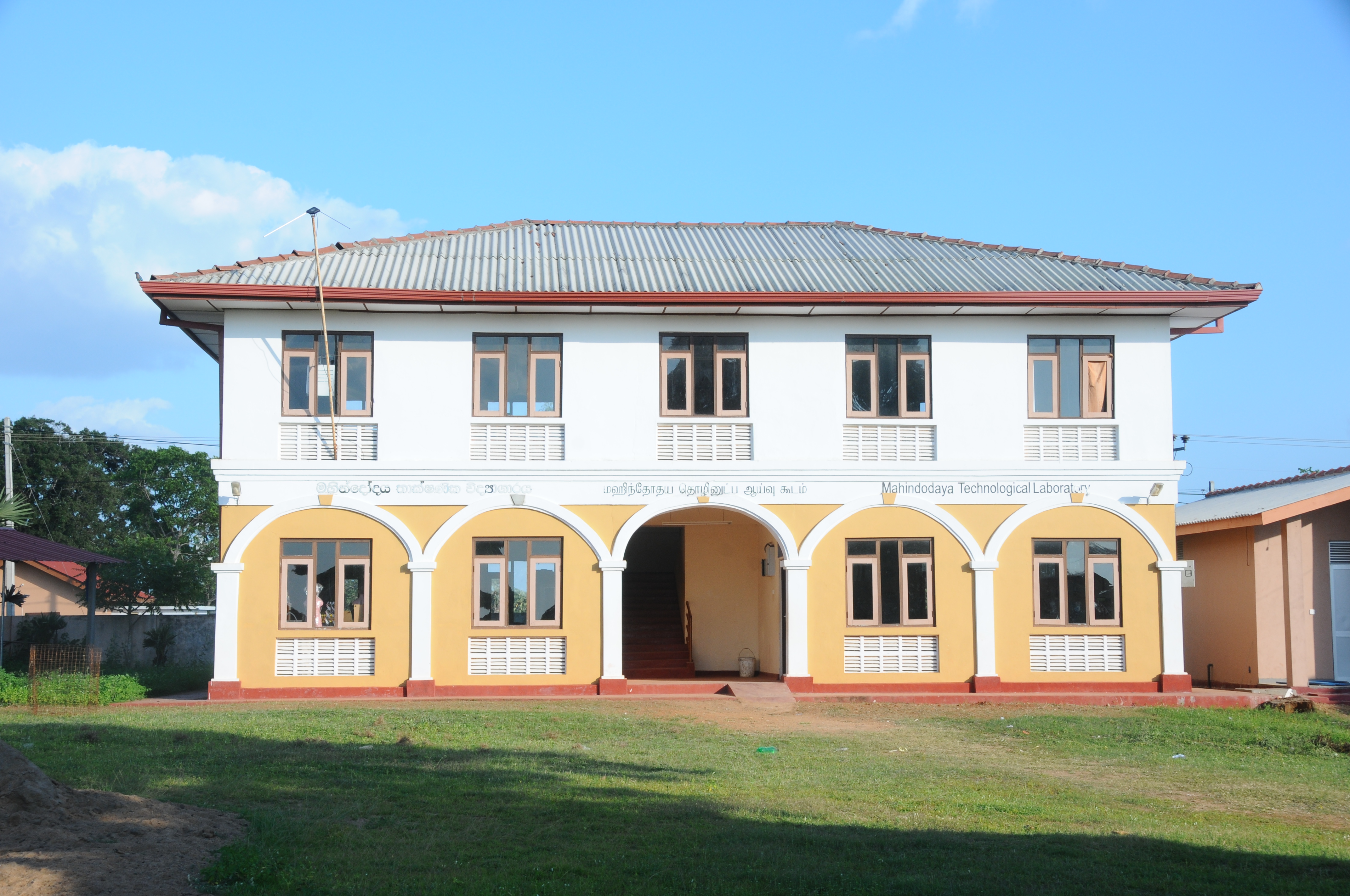 Engneering Building